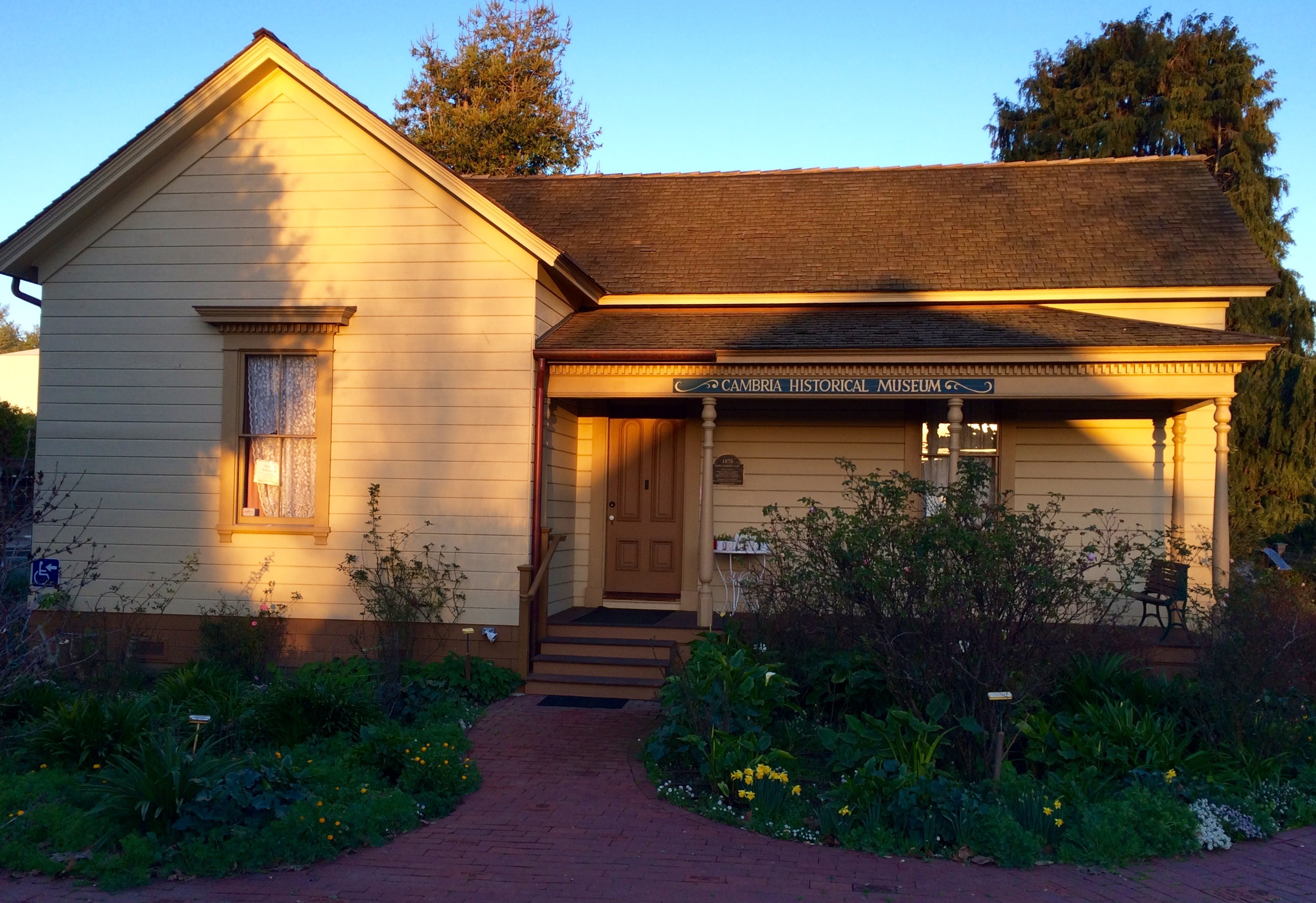 Guthrie-Bianchini House, built 1870: Restored & opened as a museum 2008.